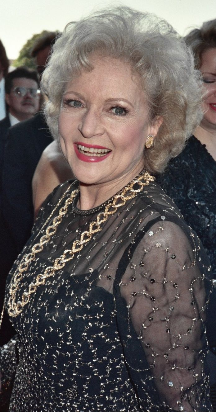 Photo of actress Betty White at the 41st Emmy Awards.